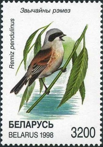 Stamp of Belarus